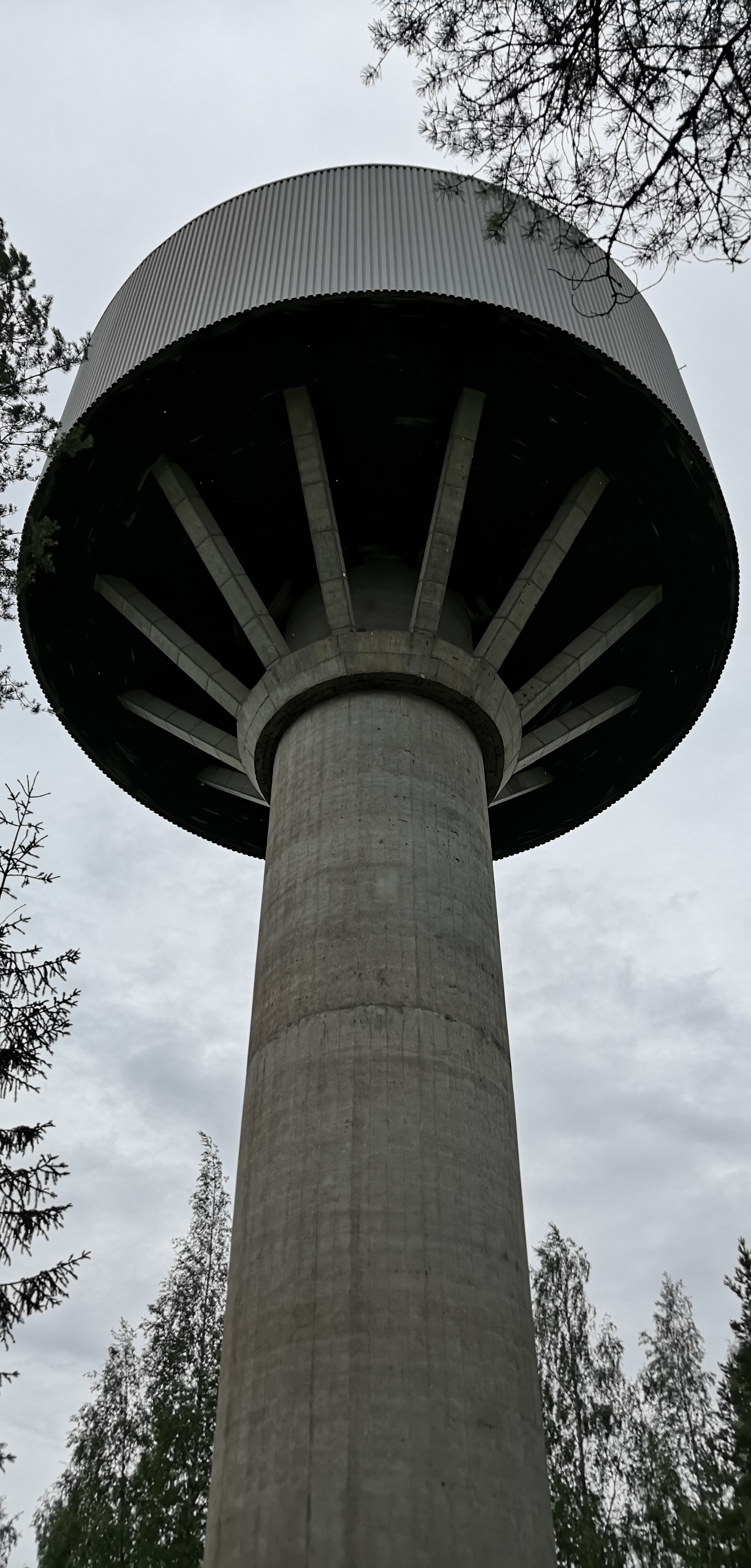 Valkealan Niinistön vesitorni